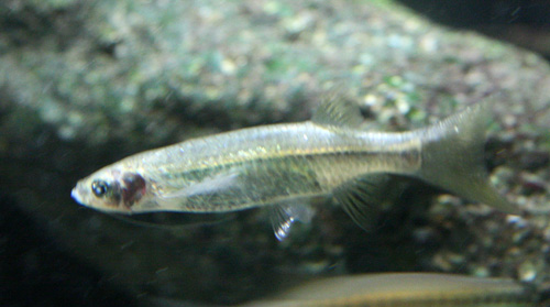 A striped flying barb (Thai: ปลาซิวหนวดยาว), or Esomus metallicus, at the Chiang Mai Zoo Aquarium, Thailand, in January 2011. Picture taken by myself.